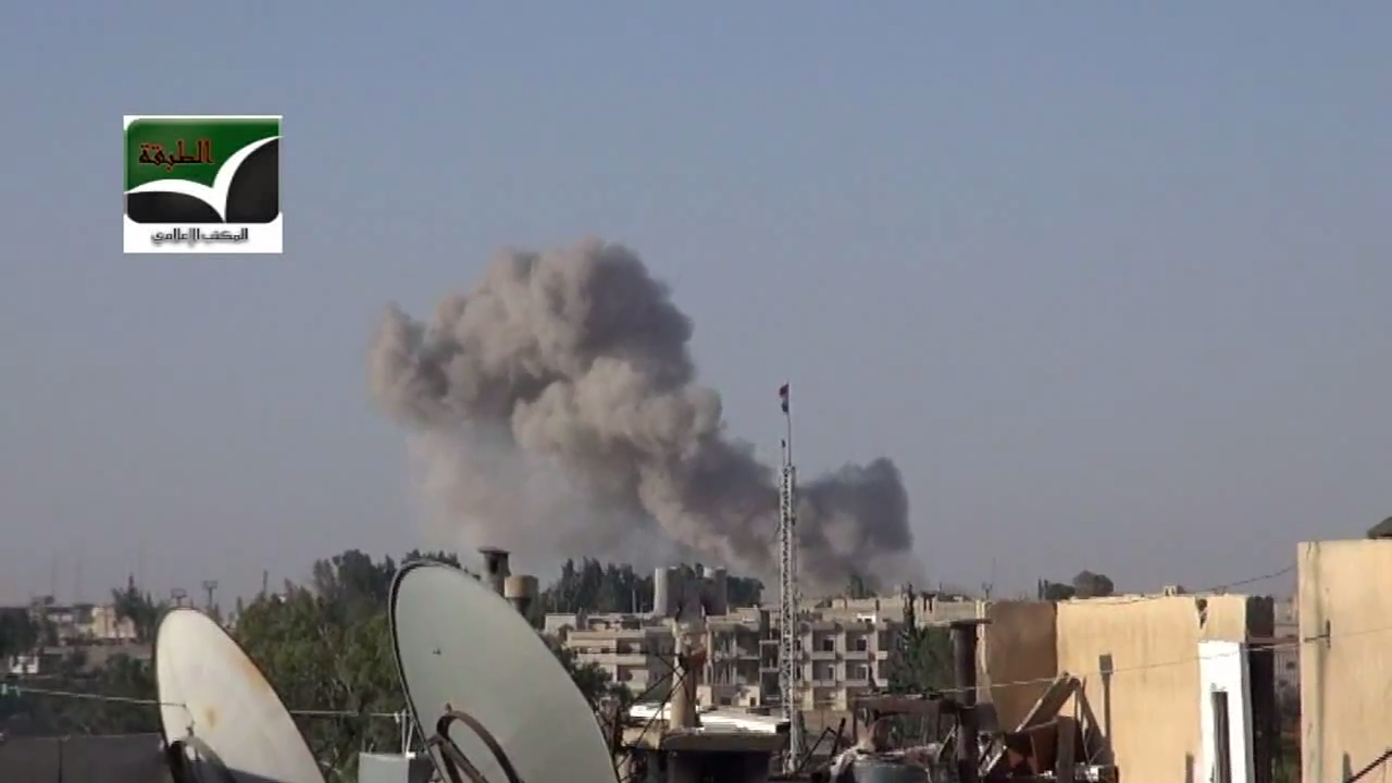 Smoke rises in Tabqa after the city was hit by a Syrian Air Force airstrike.